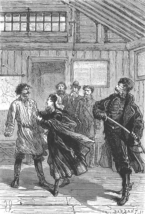 An illustration from the novel "Michael Strogoff: The Courier of the Czar" by Jules Verne drawn by Jules Férat.